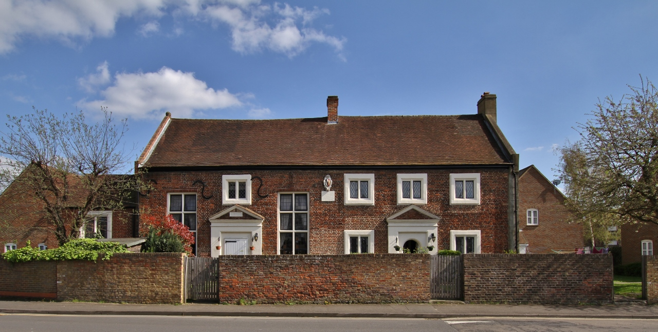 Lord Knyvett's Free School, High Street, Stanwell, Middlesex, seen from west north-west